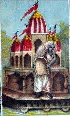 "Album of popular prints mounted on cloth pages. Colour lithograph, lettered, inscribed and numbered 37. The print is subdivided into ten equal parts, each representing one of the ten aspects of Devi, the divine mother. Each image is identified with a Bengali inscription, and the goddesses represented are: Kali, Tara, Shodashi, Bhuvaneshvari, Bhairavi, Chhinnamasta, Dhumavati, Bagalamukhi, Matangi, and Kamala. 2003,1022,0.37, AN804243 "